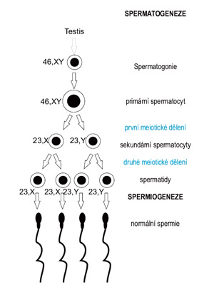 Scheme of spermatogenesis with Czech description.